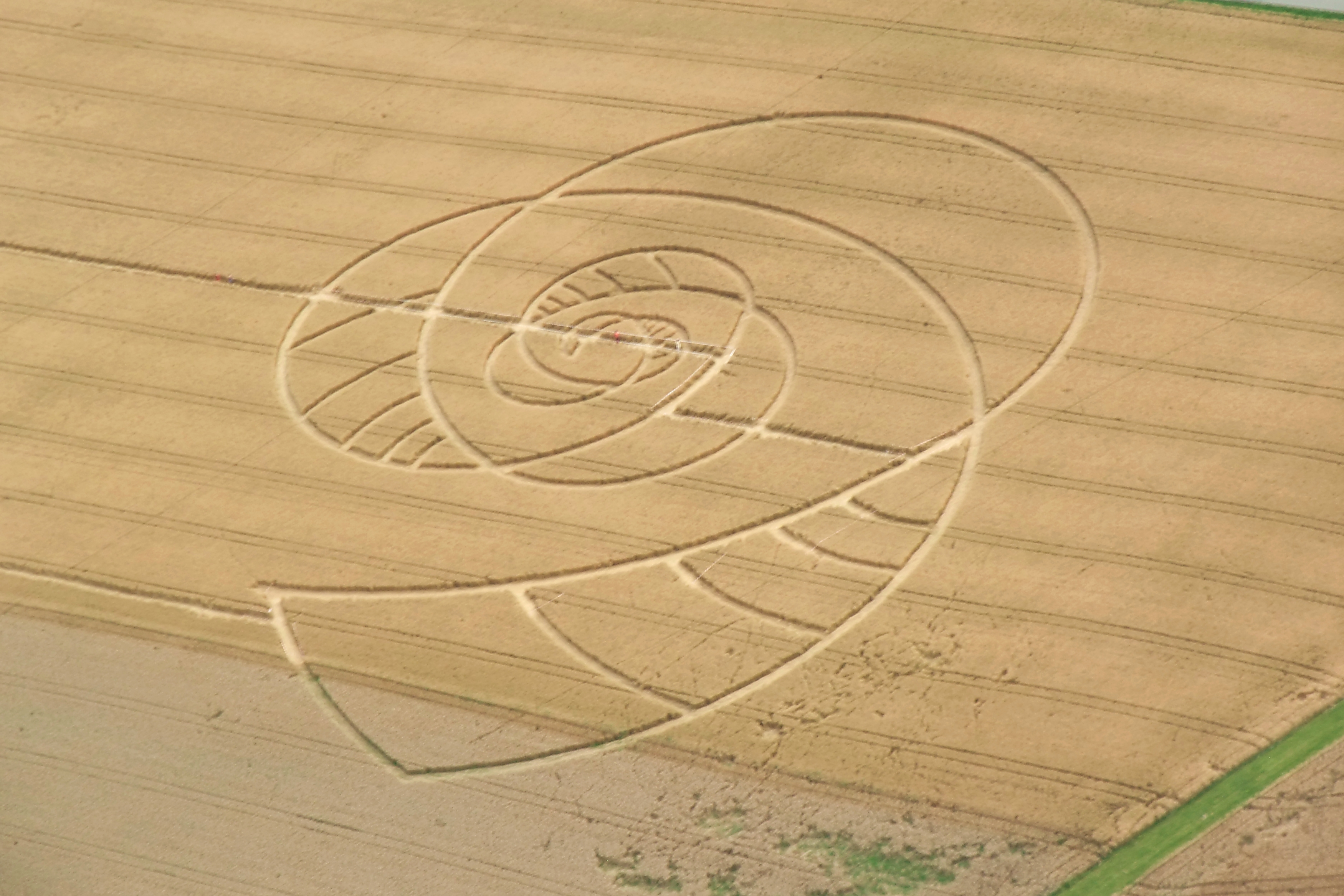 Location Tägermoos between Steckborn and Hörhausen. The crop circle in this photo is already 15 days old. For visitors the owner made additional paths which disfigure the image somewhat. The shape is just simple, but more than a few circles. It reminds of the double helix of DNA. Aerial shot from a Reims-Cessna F172N Skyhawk II, Switzerland, July 27, 2009, 4.16 pm. [?]